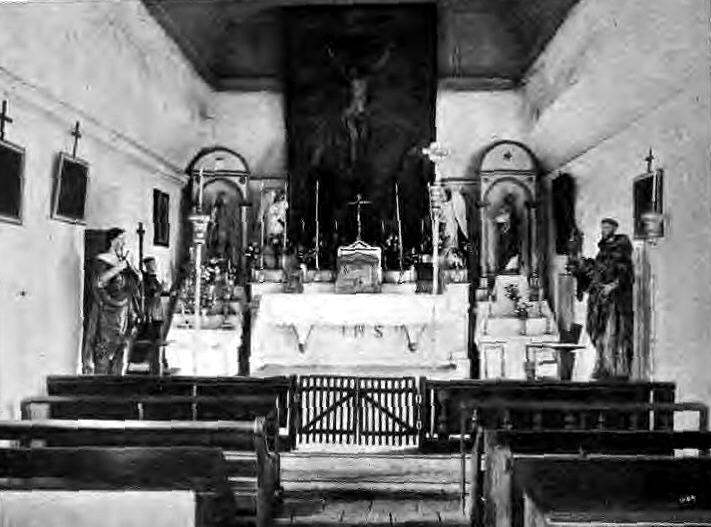 Mission San Juan Capistrano'sSerra Chapel sometime before 1912.